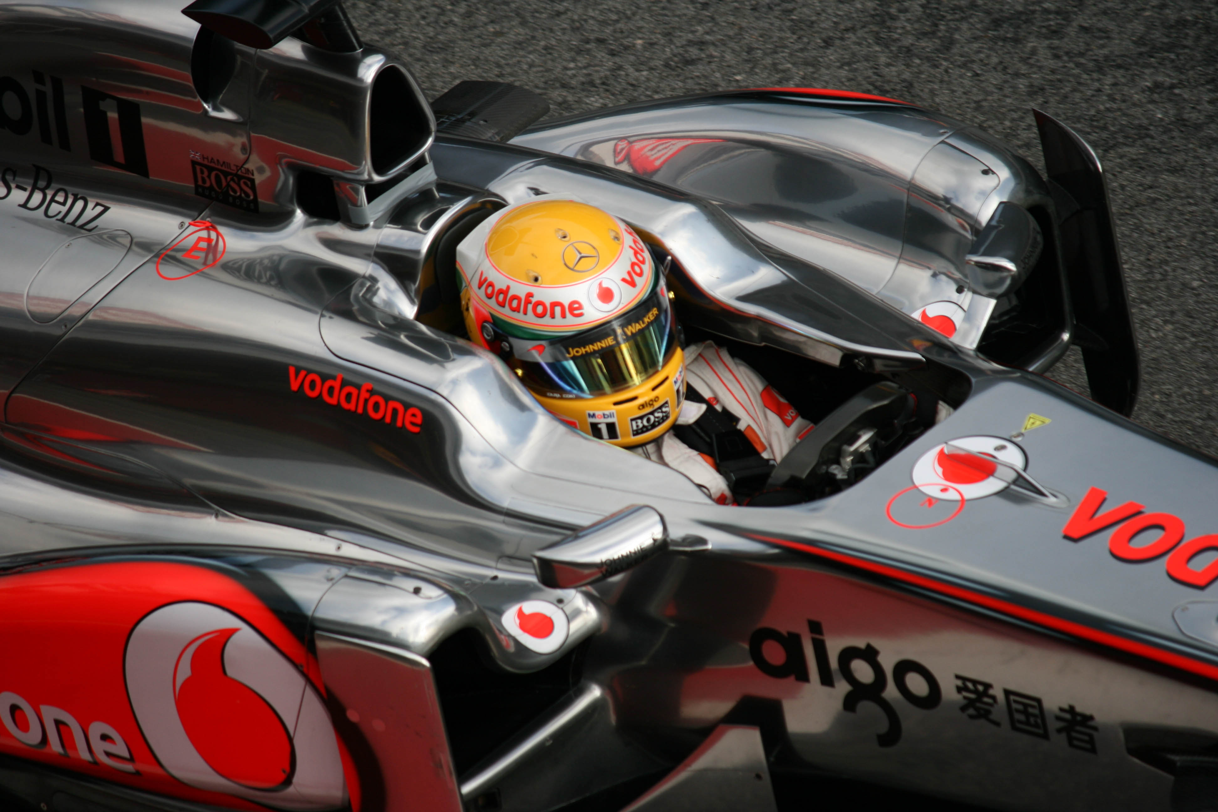 Left sidepod of McLaren MP4-26